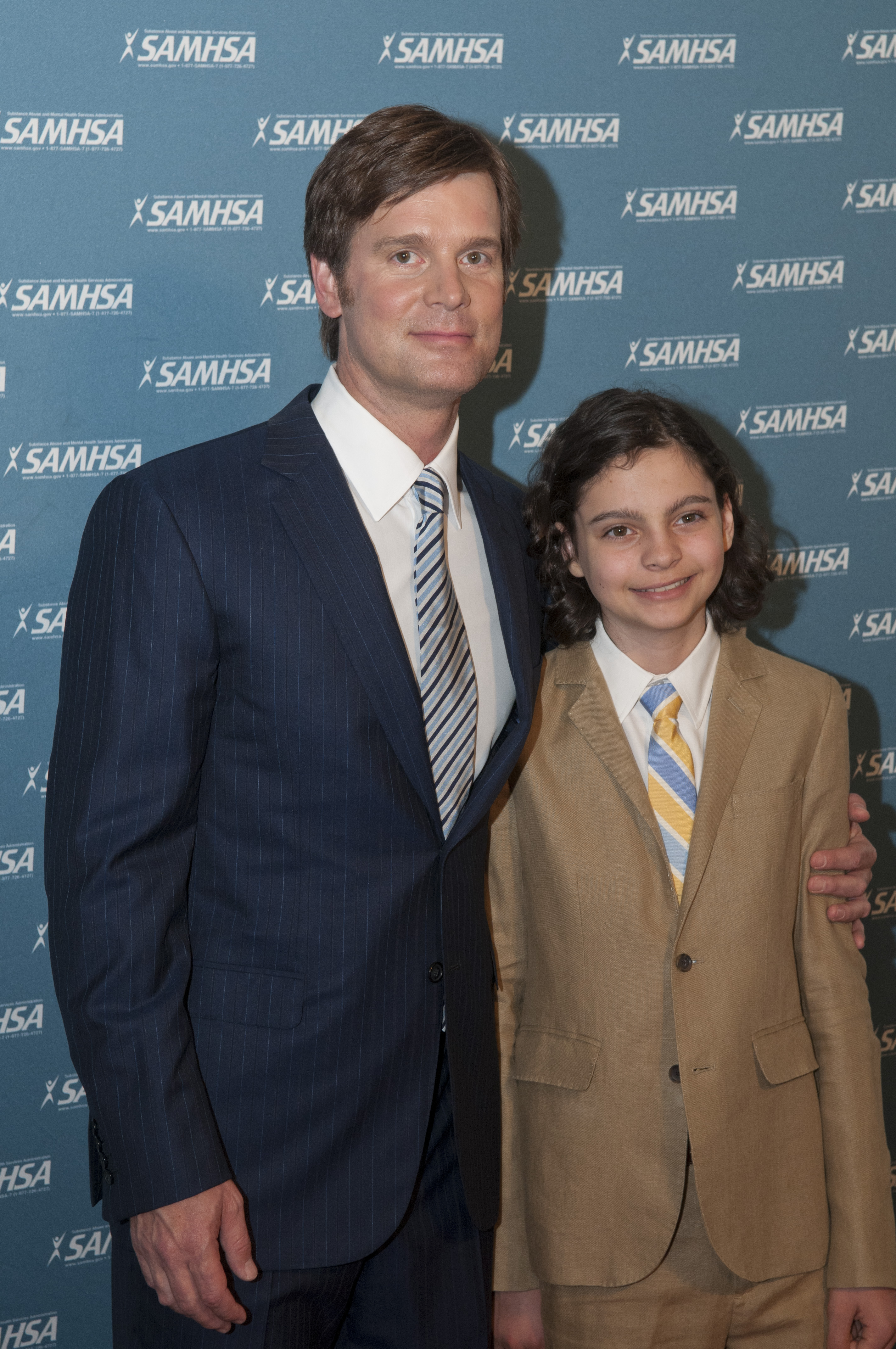 2011 Voice Awards host, actor Peter Krause of NBC's “Parenthood” and co-star Max Burkholder share the red carpet at the 2011 Voice Awards held at Paramount Studios on August 24, 2011. Photo credit: SAMHSA